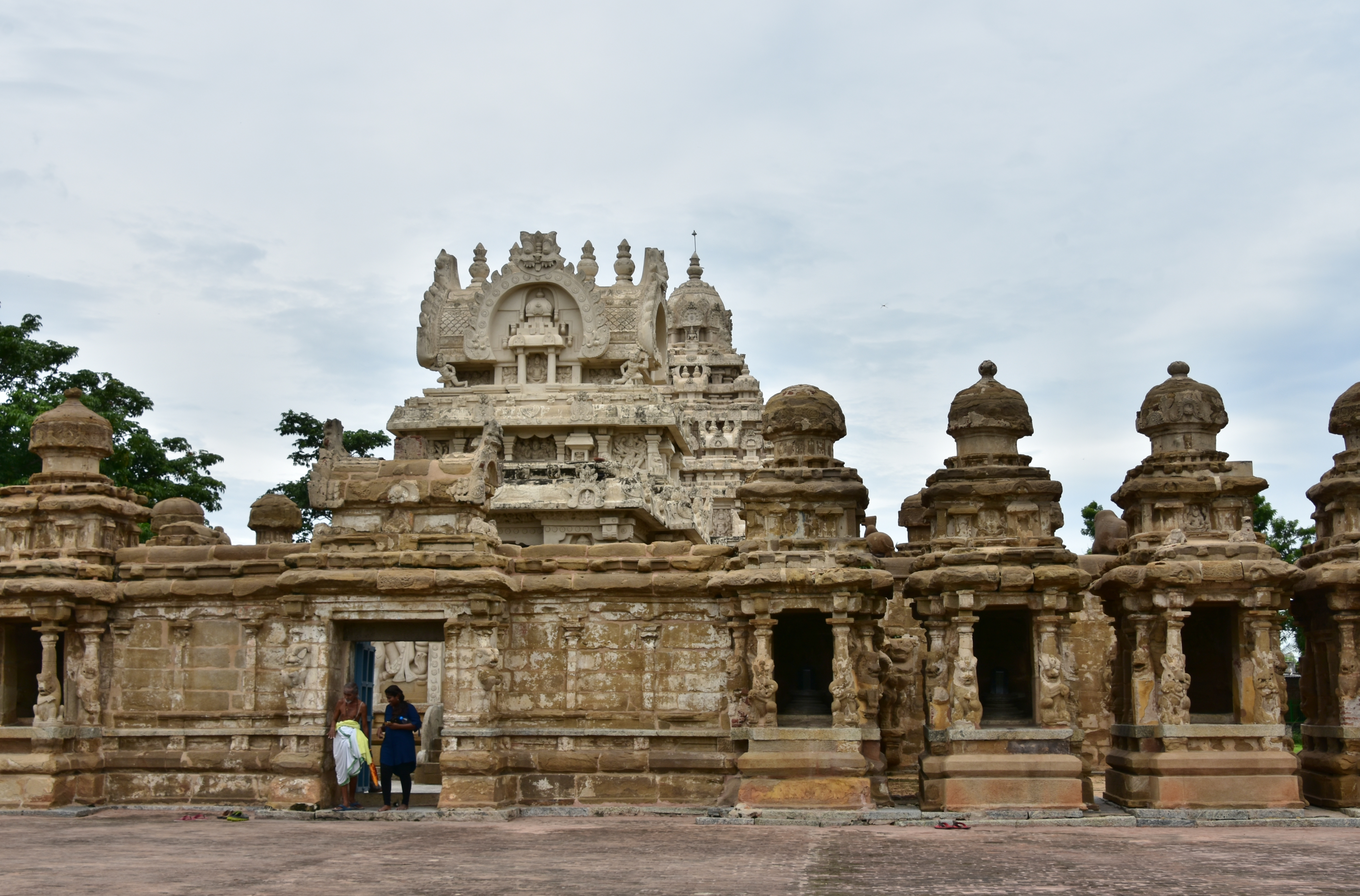 Kailasanatha Temple, dedicated to Shiva, Pallavve period, early 7th century, Kanchipuram (60) Kailashanatha Kailasanath Kailasnath Shiva Siva Hindu temple Kanchipuram, Tamil Nadu, India Le Kailasanatha est un temple hindouiste dédié à Shiva de la ville de Kanchipuram, au Tamil Nadu Inde